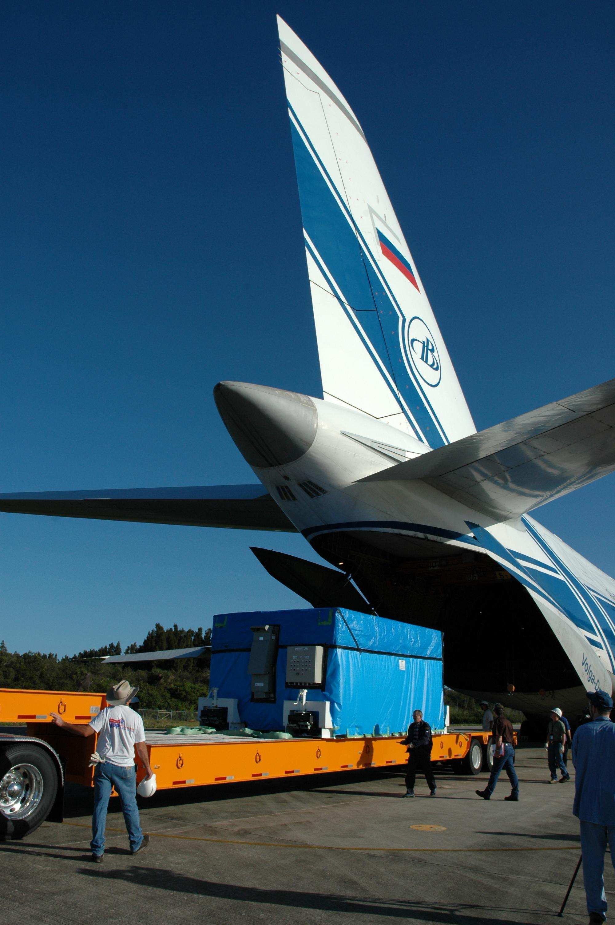 KENNEDY SPACE CENTER, FLA. -- At the KSC Shuttle Landing Facility, the remote manipulator system for the Japanese Experiment Module has been offloaded from the Antonov 124 aircraft onto a truck bed. The RMS will be transported to the Space Station Processing Facility. The JEM, named "Kibo" (Hope), is Japan's primary contribution to the International Space Station. It will enhance the unique research capabilities of the orbiting complex by providing an additional environment for astronauts to conduct science experiments. The Japanese Aerospace Exploration Agency developed the laboratory. Both the JEM and RMS are targeted for mission STS-124, to launch in early 2008.